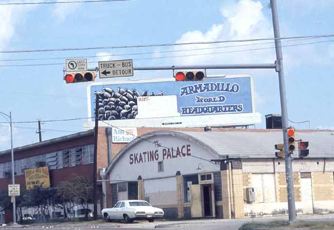 Photo of the Armadillo World Headquarters, an Austin Texas music venue, in September 1976. Photo by Steve Hopson. More information about photographer and more Armadillo photos at . Use of this photo requires attribution. Please credit, Steve Hopson Photography, .